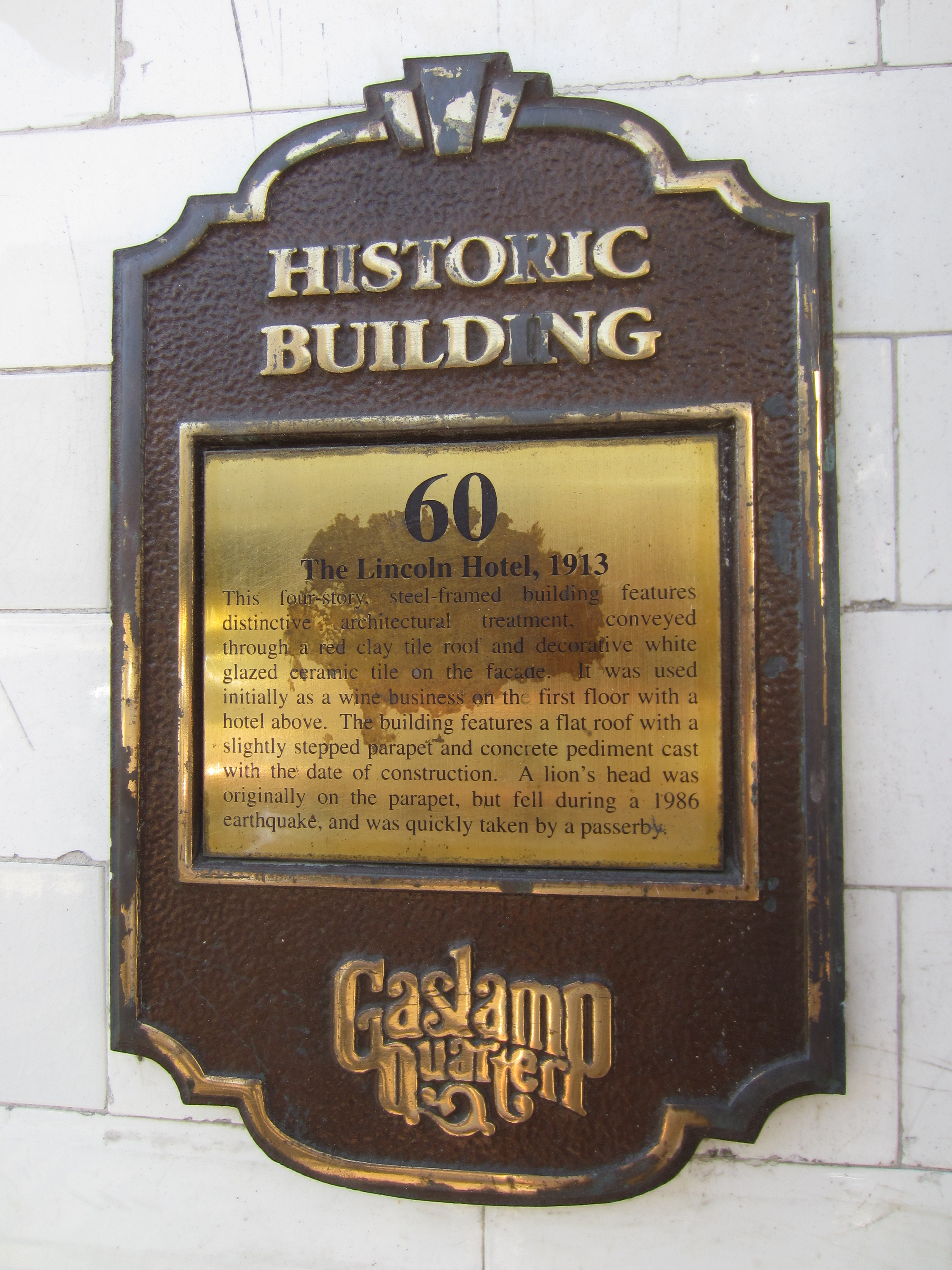 Lincoln Hotel, San Diego, 2016